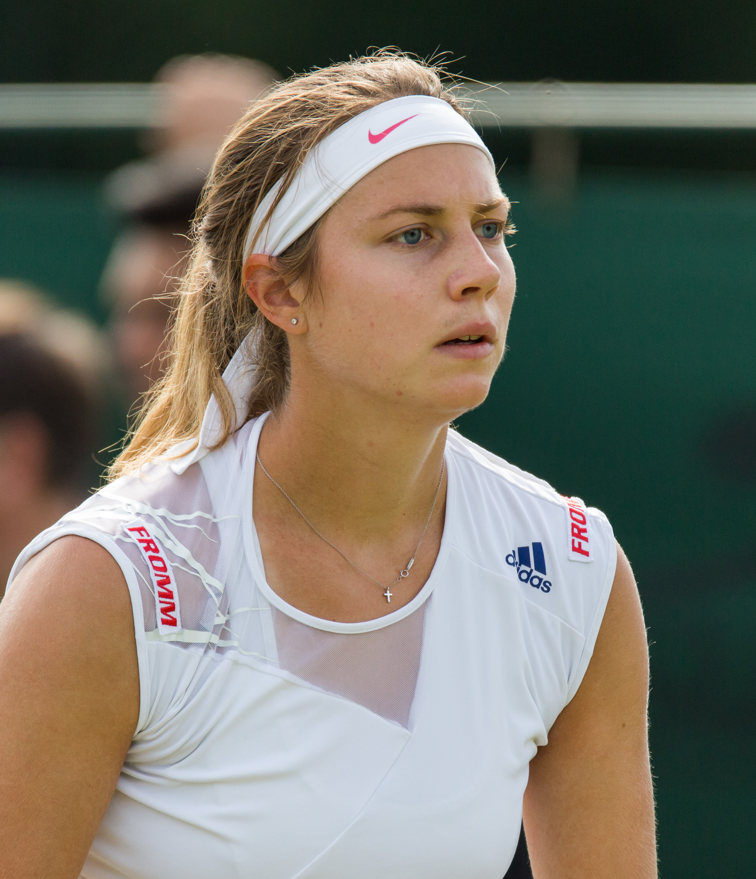 Stefanie Vögele competing in the first round of the 2015 Wimbledon Womens Doubles Qualifying Tournament with Jana Cepelova at the Bank of England Sports Grounds in Roehampton, England. The winners of two rounds of competition qualify for the main draw of Wimbledon the following week.